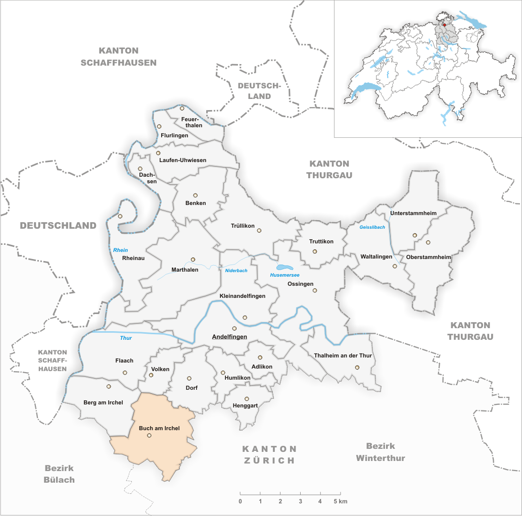 Municipality Buch am Irchel